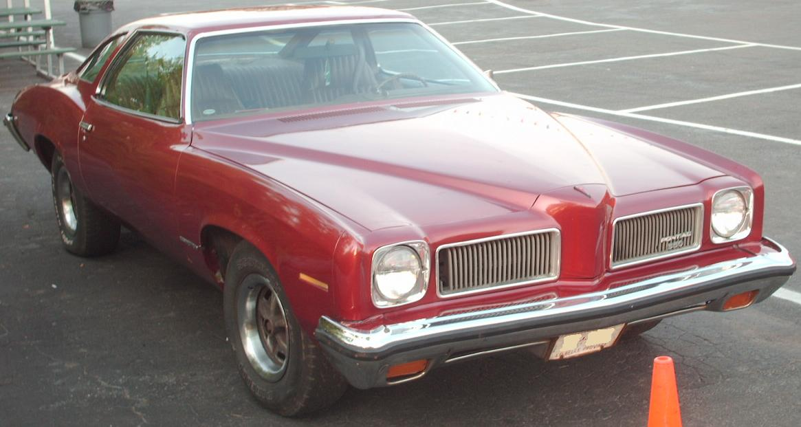 Pontiac LeMans coupe photograped in Montreal, Quebec, Canada at Gibeau Orange Julep.